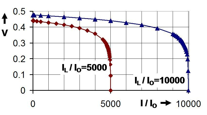 Solar cell voltage vs current for two values of light-induced current IL. The equation used is : I = I L − I 0 ( e q V / ( m k T ) − 1 ) , {\displaystyle I=I_{L}-I_{0}\left(e^{qV/(mkT)}-1\right)\ ,} with m=2. For a discussion of parameter values, see Lorenzo isbn=8486505550